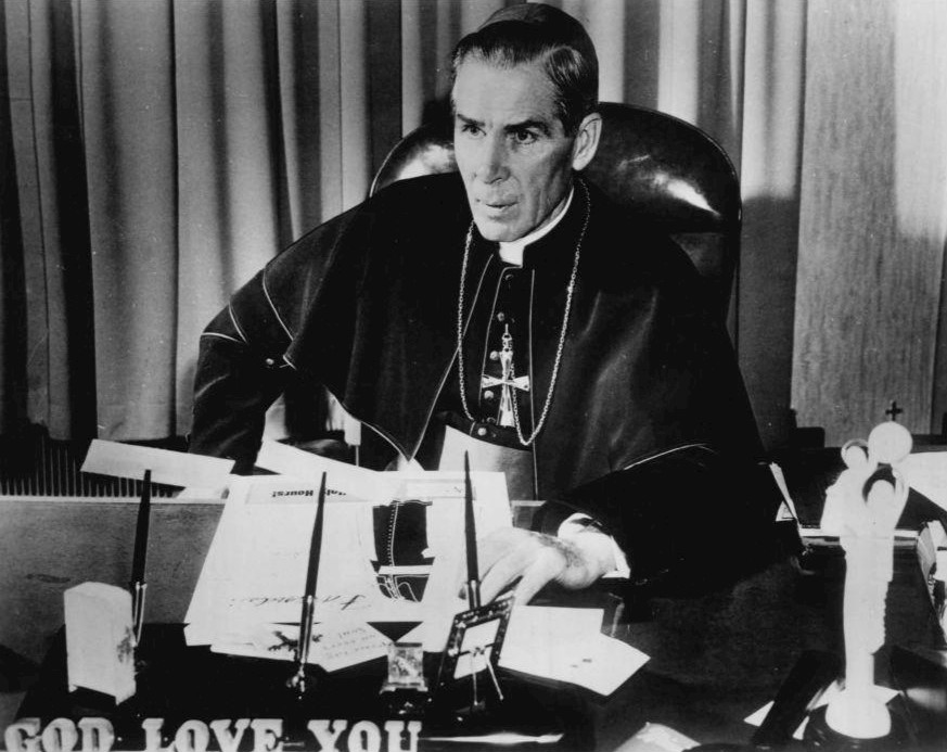 Photo of Bishop Fulton J. Sheen, the Roman Catholic Bishop of the Diocese of Rochester, New York. Sheen had a radio and television program called Life Is Worth Living which aired from 1951 to 1957.